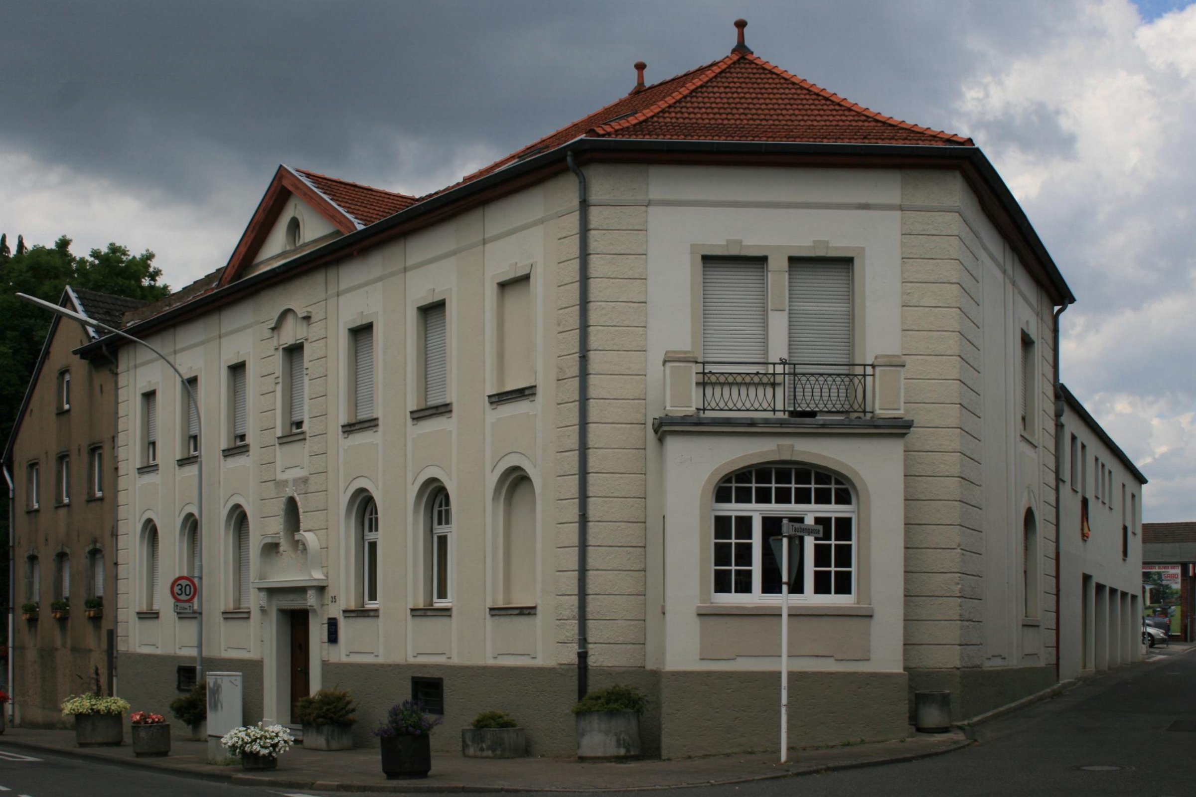 Cultural heritage monument No. B 036 in Mönchengladbach